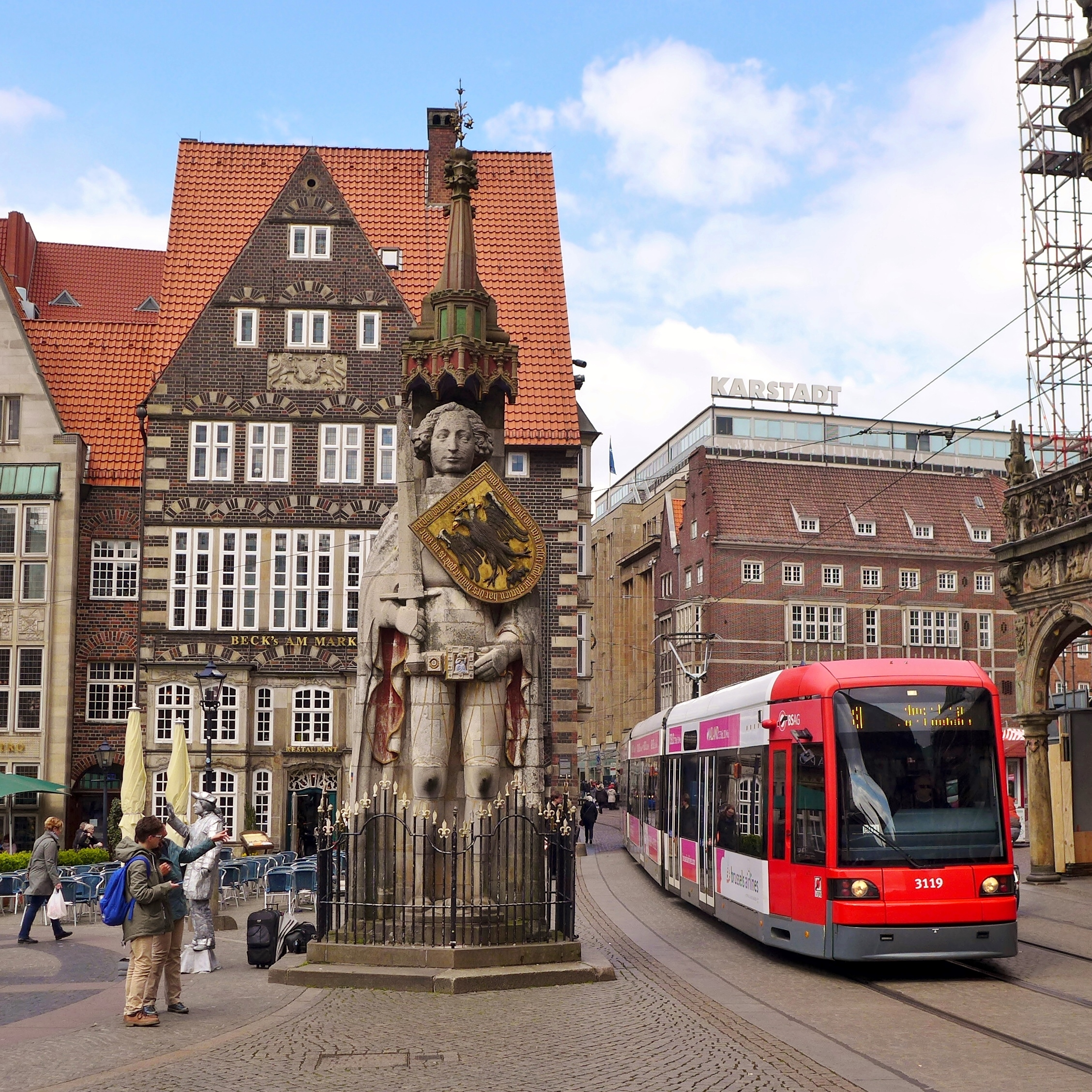 Bremer Straßenbahn AG (BSAG) tram no. 3119 operating a Huchting-bound line 8 service along Am Markt as it enters the Bremer Marktplatz, Bremen, Germany. The Bremen statue of Roland is at left.